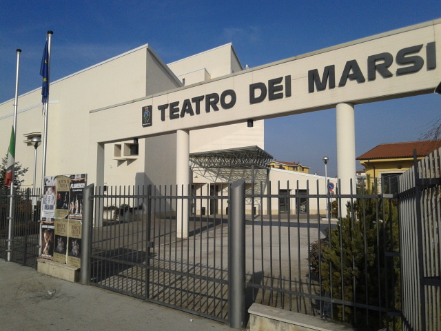 Marsi theater